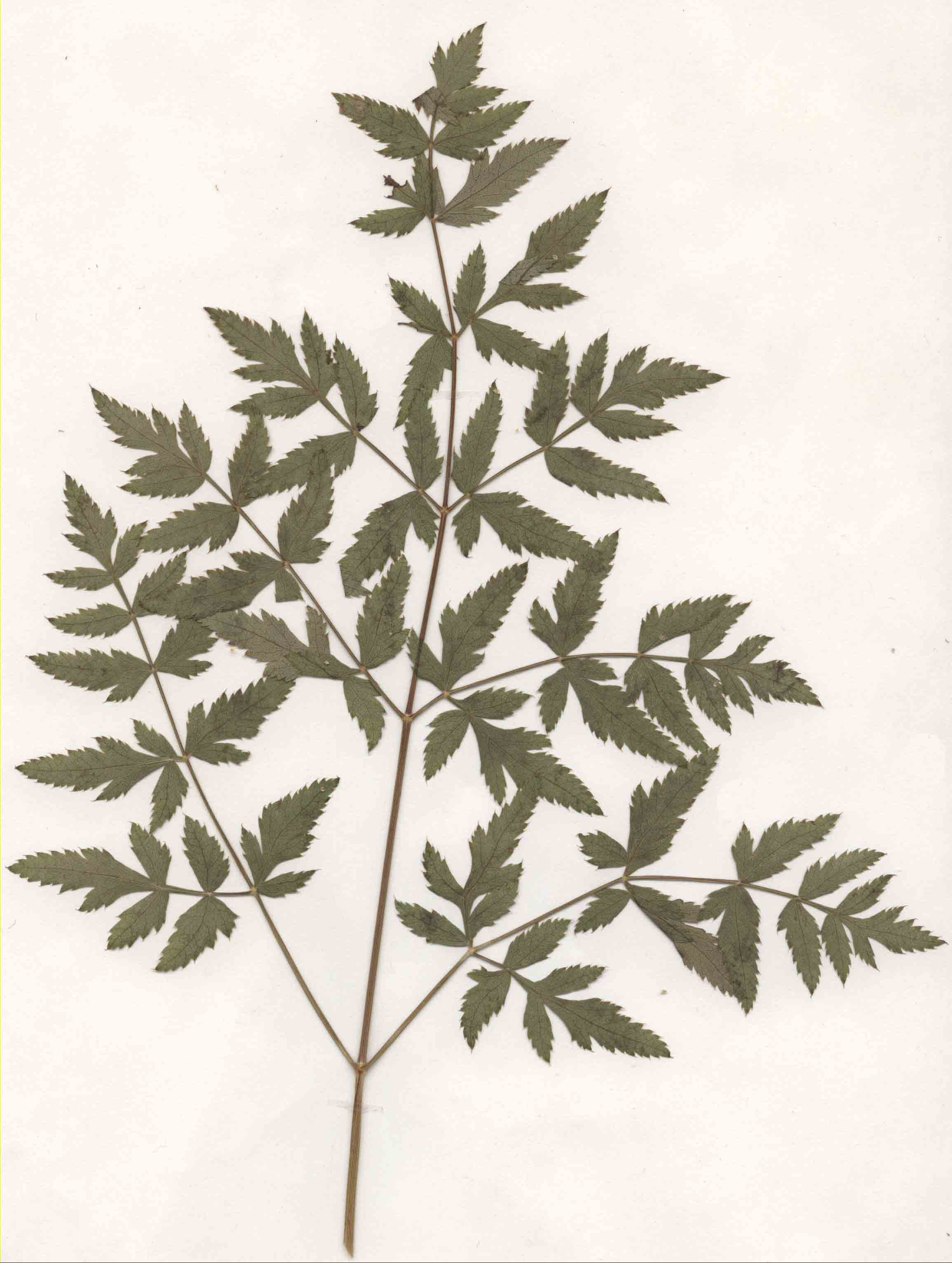 My own herbarium specimen (Unterfranken, Germany)